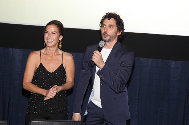 Actors Bélen López (left) and Paco Leon the Miami Film Festival presentation of "WE ARE PREGNANT" Photo: David Heischrek